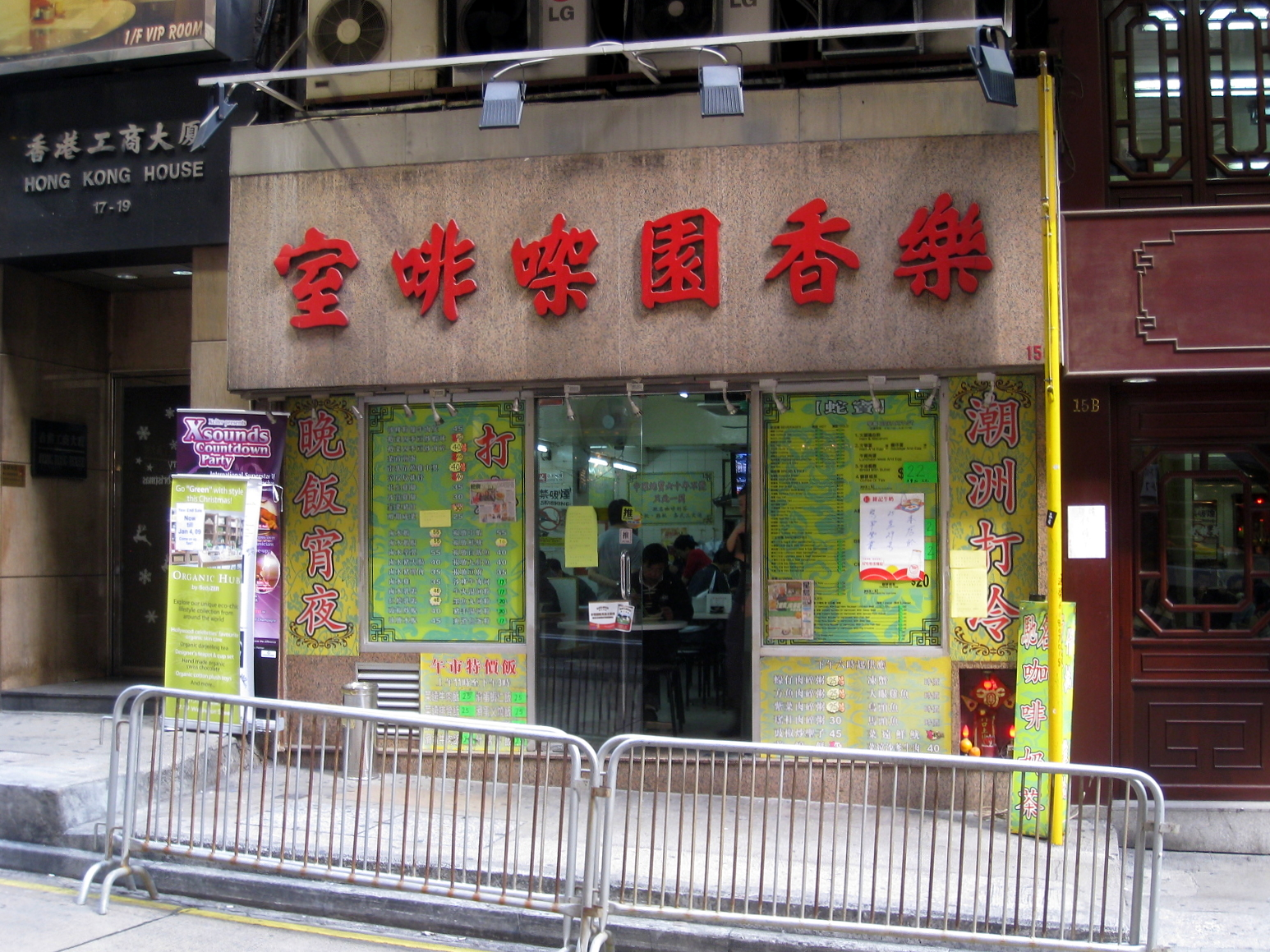 Lok Heung Yuen Coffee Shop 樂香園咖啡室